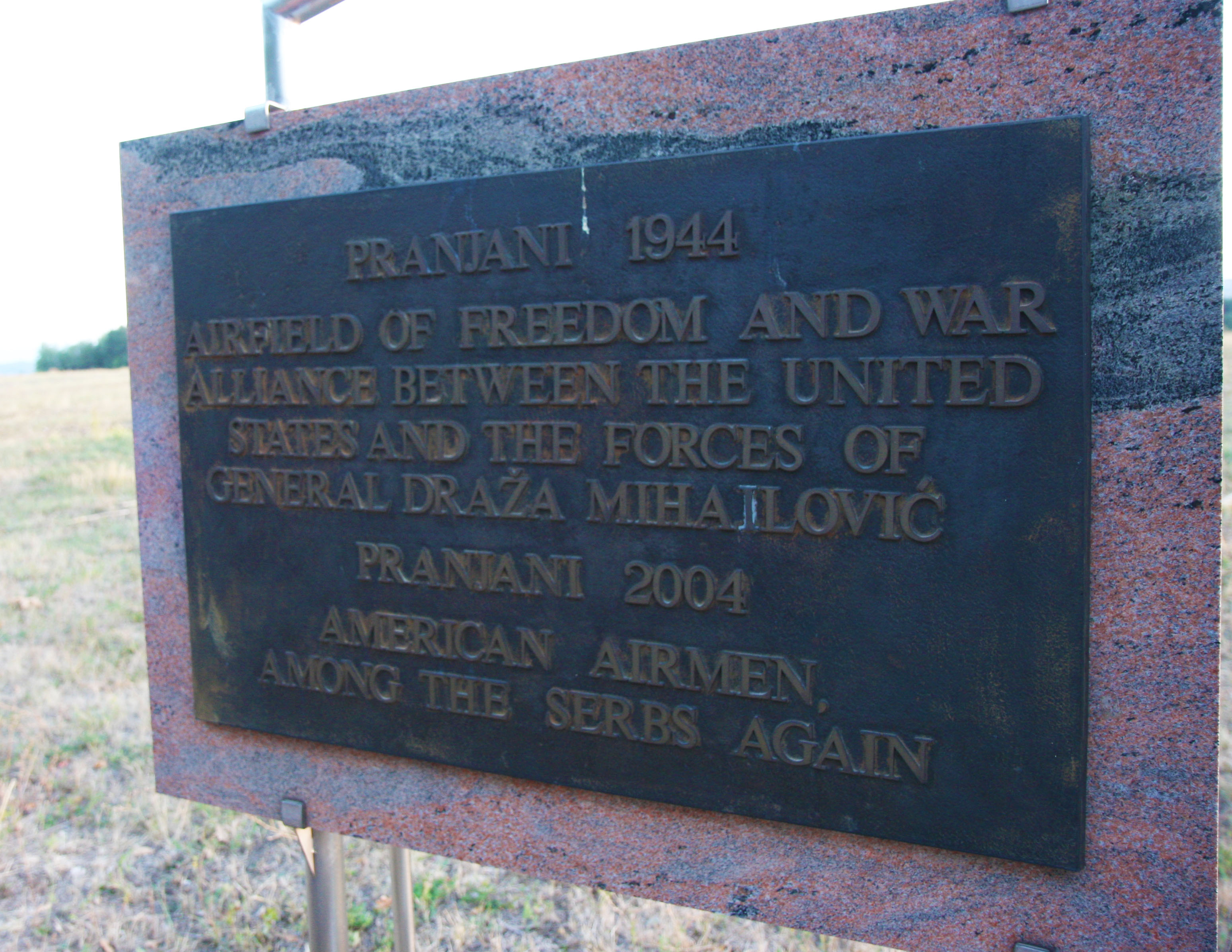 Members of the U.S. European Command , U.S. Embassy Belgrade, U.S. Army Corps of Engineers Europe District and the local community participate in a wreath laying ceremony at the Halyard Mission memorial in Pranjani, Serbia September 24, 2012. The memorial pays tribute to the friendship and alliance developed between U.S. Airmen and the people of Serbia in 1944. During World War II more than 500 Airmen were shot down over occupied Serbia and rescued by local Serbians who ultimately assisted in the largest evacuation of troops behind enemy lines in history. The people of Pranjani were instrumental in the success of the Halyard Mission rescue, as a small token of thanks, EUCOM , the U.S. Embassy and USACE Europe District delivered a new gymnasium to the Ivo Andric Primary School and the children of Pranjani. (U.S. Army Corps of Engineers photo by Jennifer Aldridge)